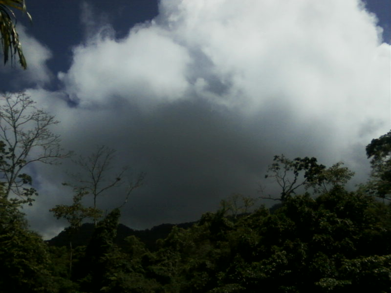 photo